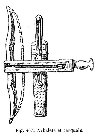 Roman hunting crossbow depicted with a quiver. Drawing of a Gallo-Roman relief from the 1st-2nd century AD. Now Musée Crozatier, Le Puy-en-Velay, Auvergne, France